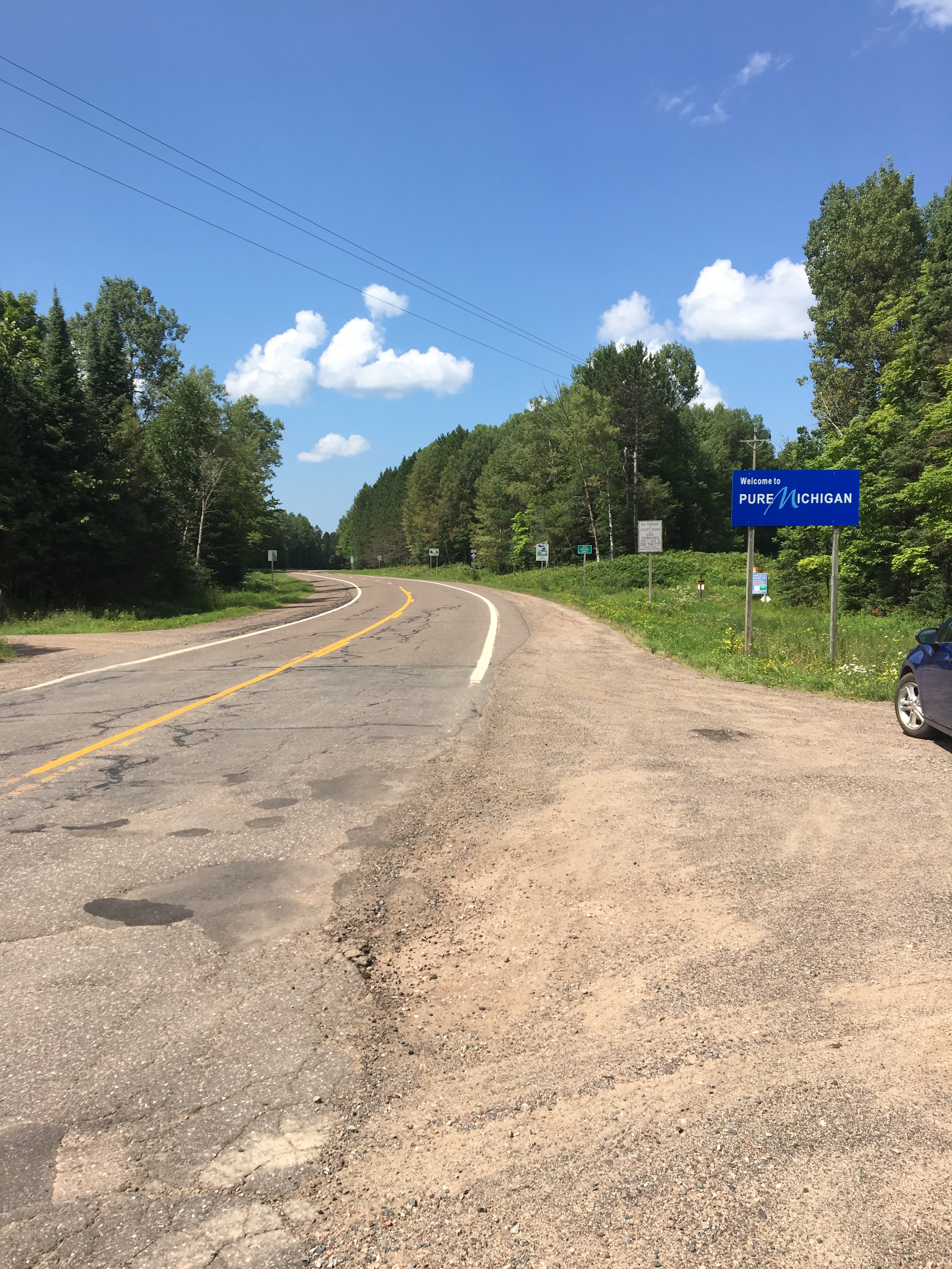 M-64 at the state line north of Presque Isle, Wisconsin, United States, July 2018